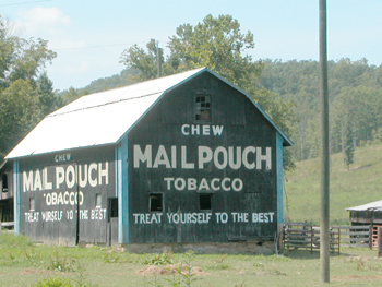 Mail Pouch barn ad Image copyleft: Image taken by me, released under GFDL Pollinator 04:01, Nov 9, 2004 (UTC)